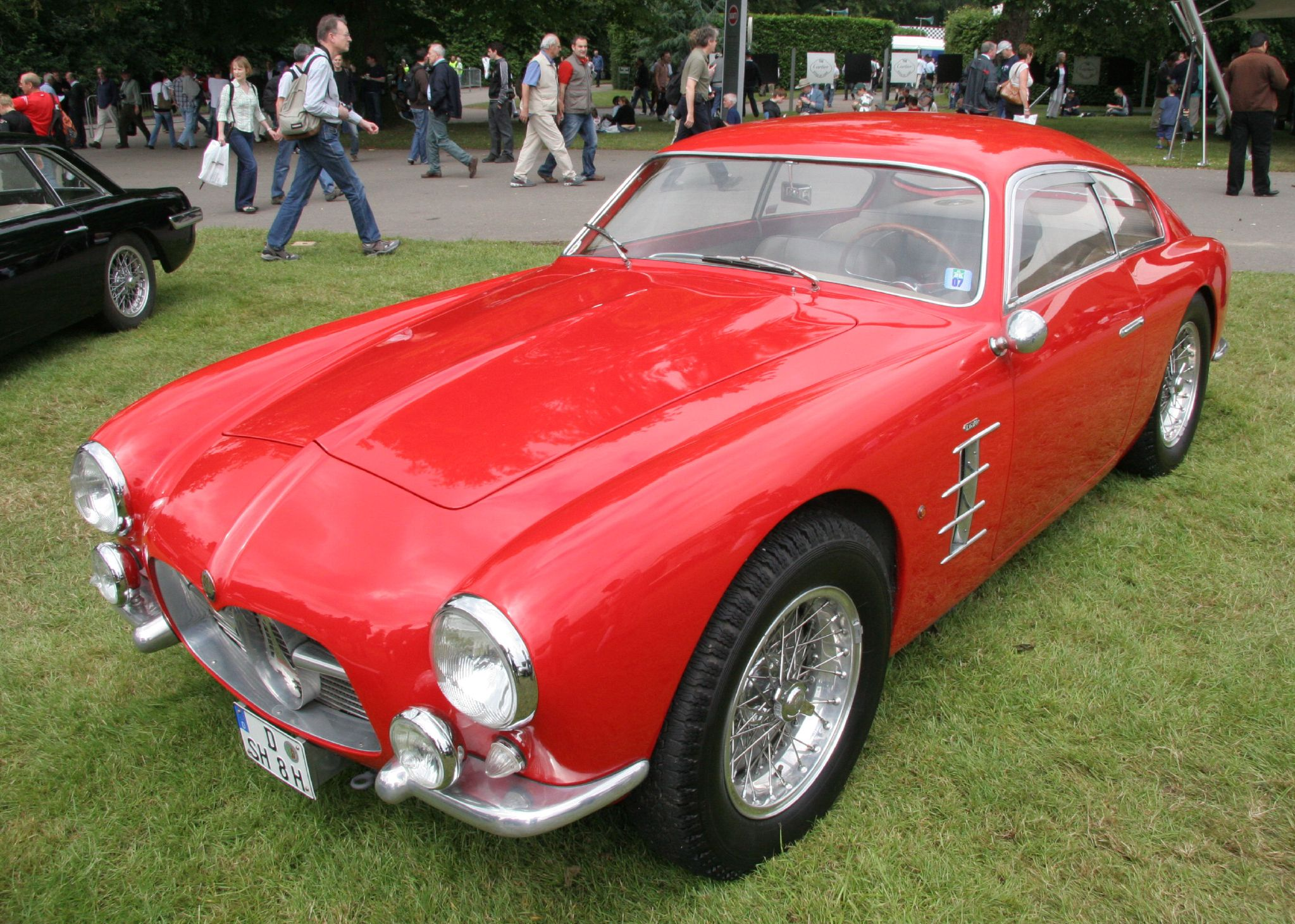 Maserati A6G/54 by Zagato